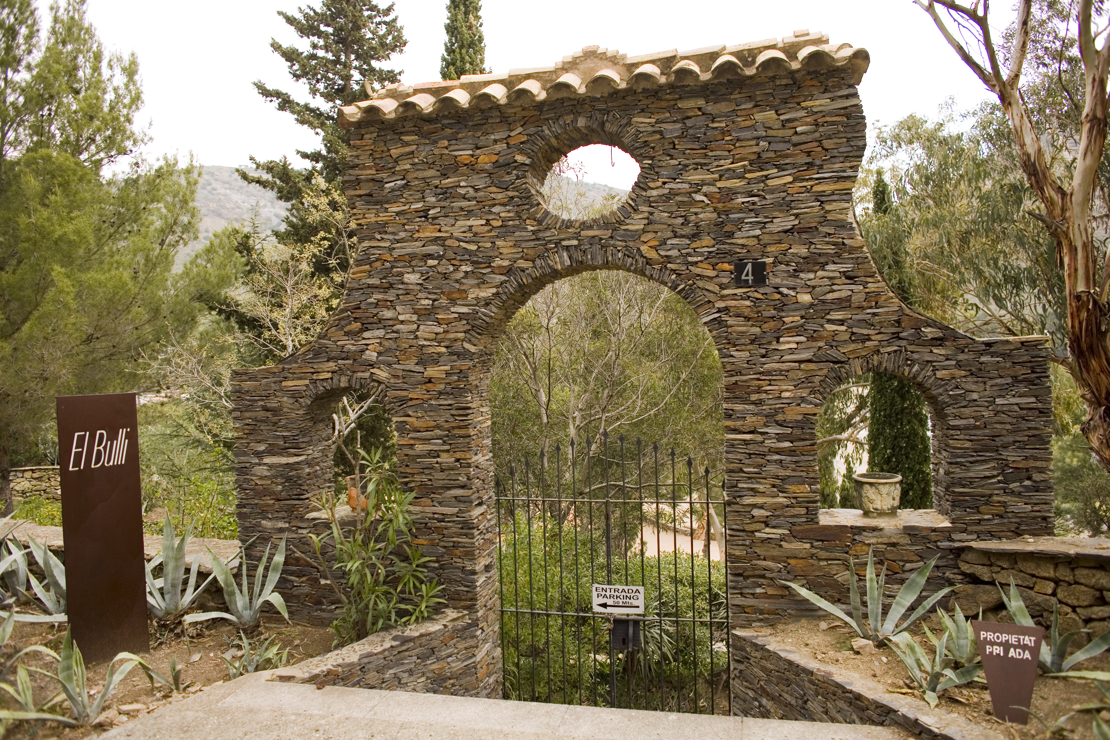 Archway to El Bulli